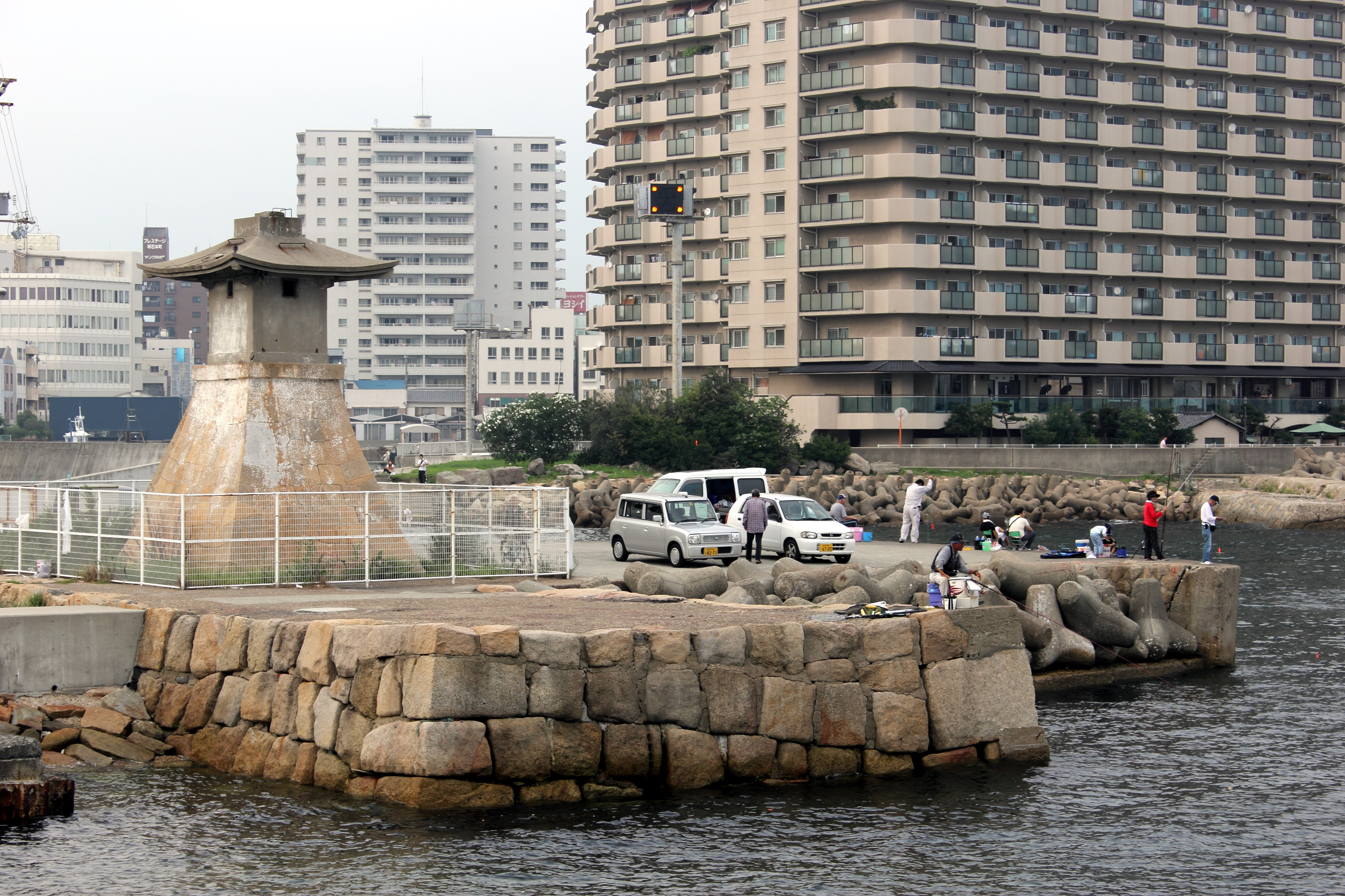 Old Lighthouse at Akashi Port